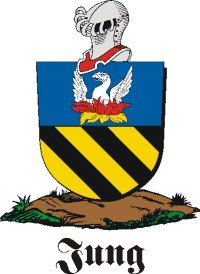 Old coats of arms of Carl Gustav Jung (senior) (1794-1864) [was a Swiss psychiatrist, professor & rector (University of Basel), grandfather of Carl Gustav Jung junior (1875-1961)]